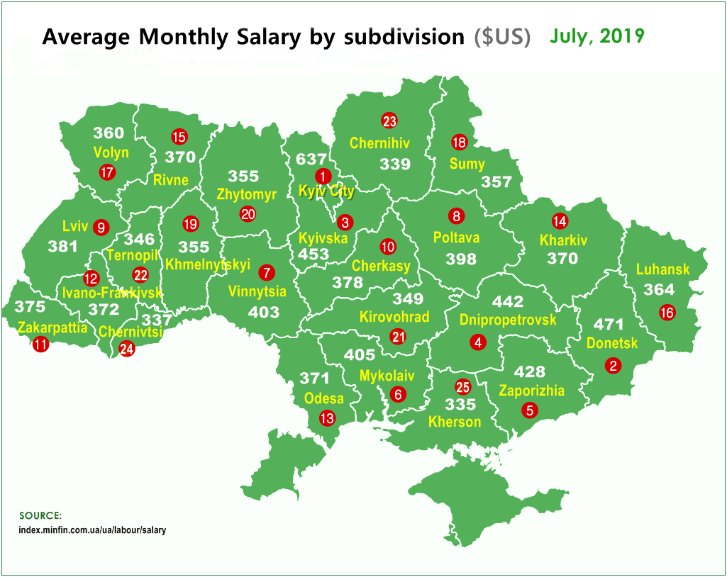 Ukrainian administrative divisions by average monthly salary in July, 2019